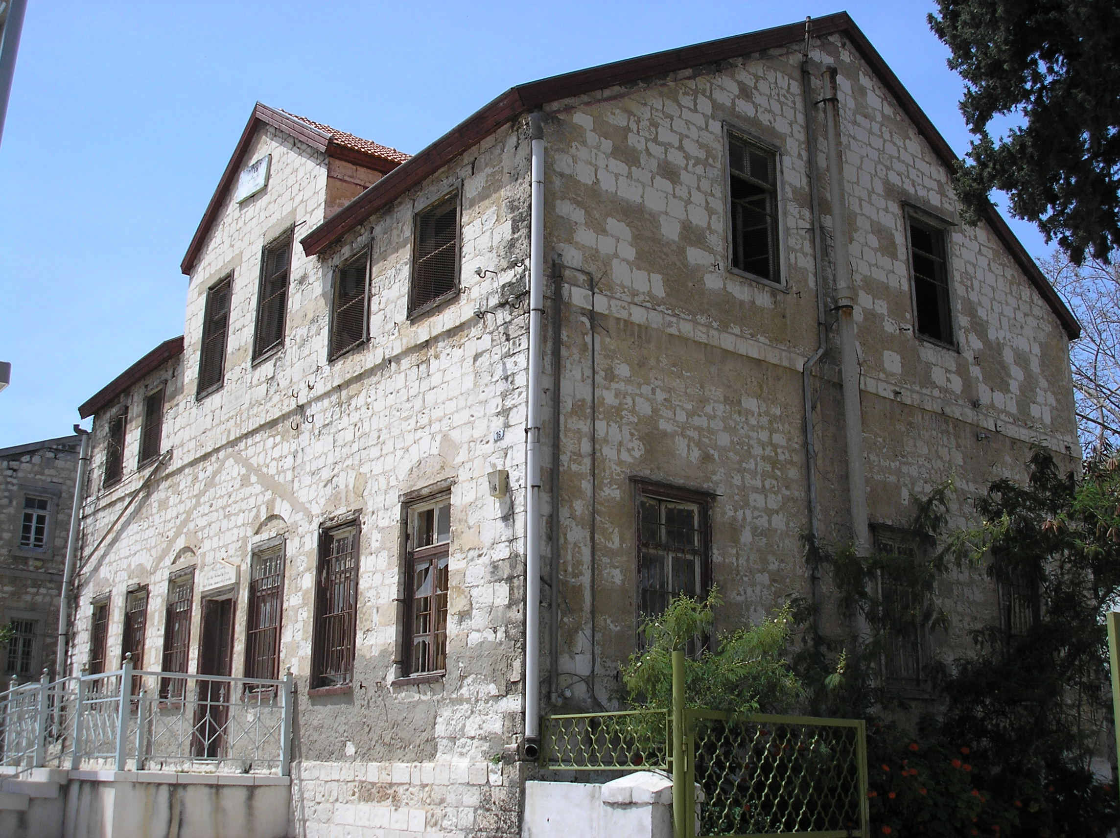 Oliphant house Beit Oliphent